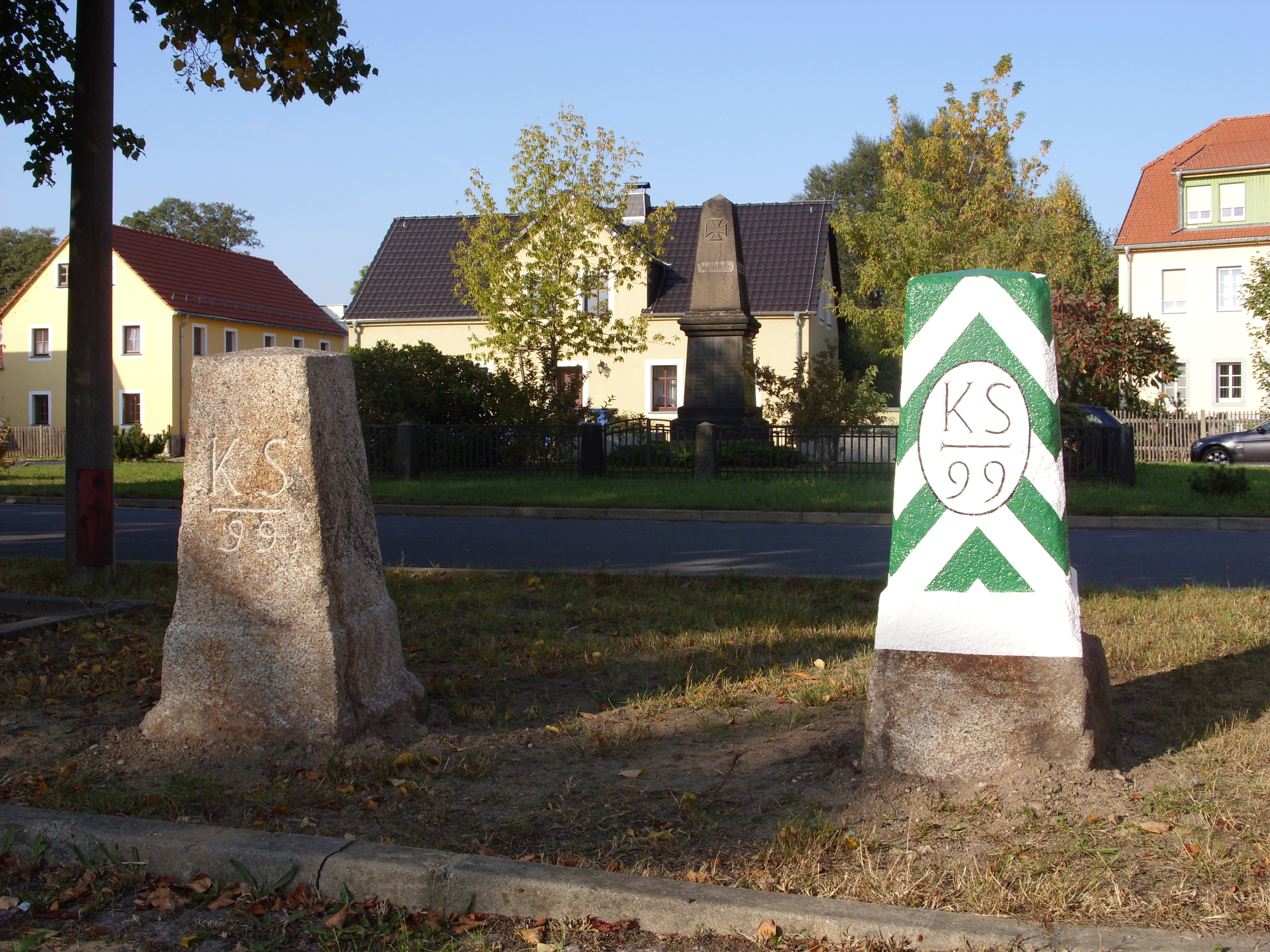 Historic boundary stones between Saxony and Prussia in Königswartha, Bautzen district. Hornjoserbsce: Historiski saksko-pruski měznik čo. 99, dźensa nastajeny na torhošću w Rakecach